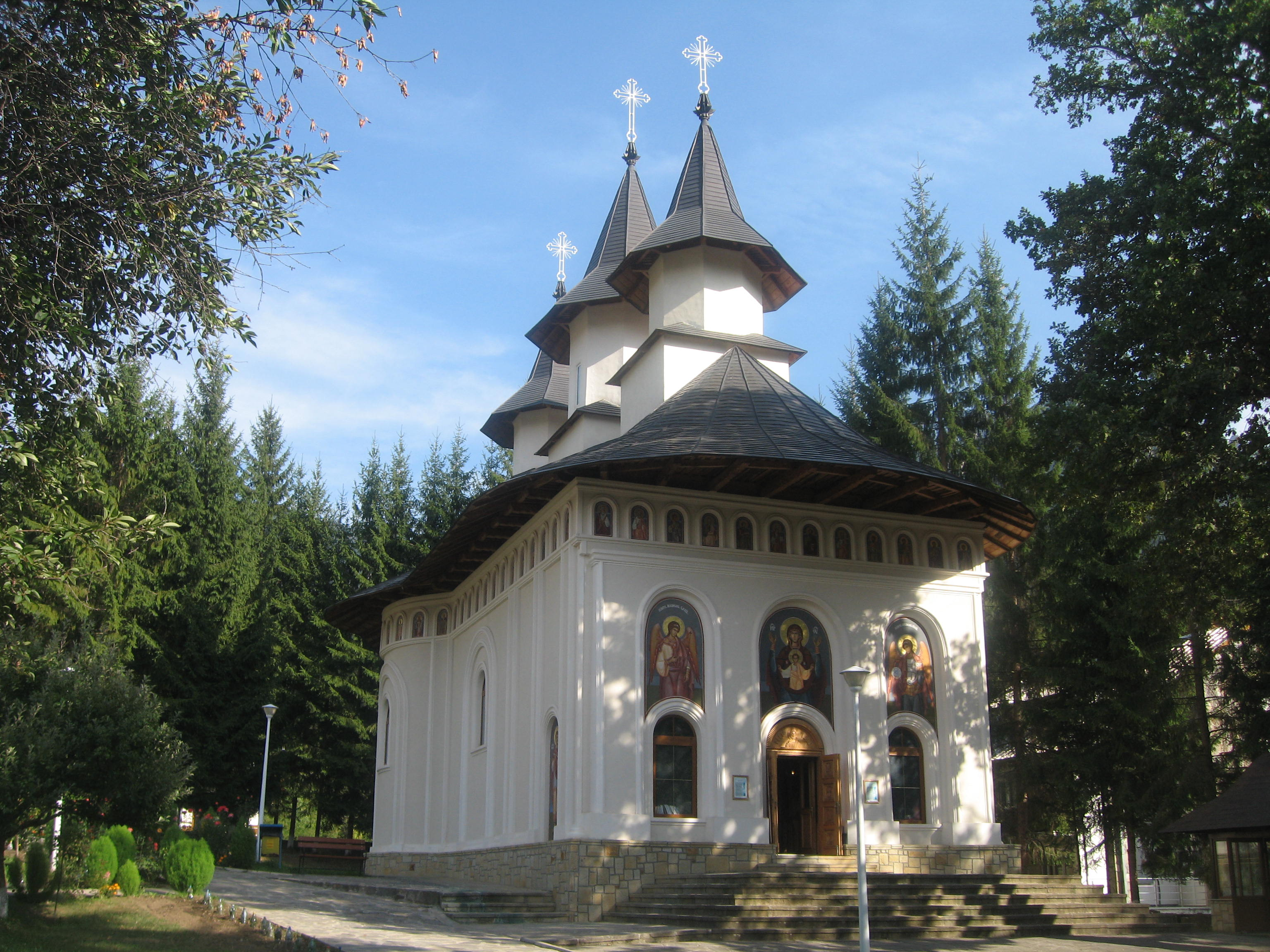 Durău Monastery, Romania